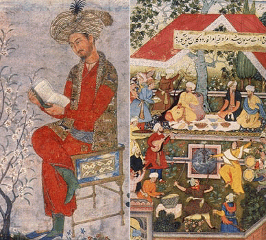 Emperor Babur and his court Illustrations from Babur-namah